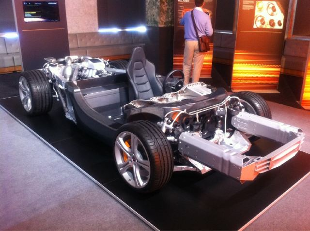 2011 Mclaren - Chassis You can check out further info about the Australian release of the all-new McLaren here at; NRMA Drivers Seat.